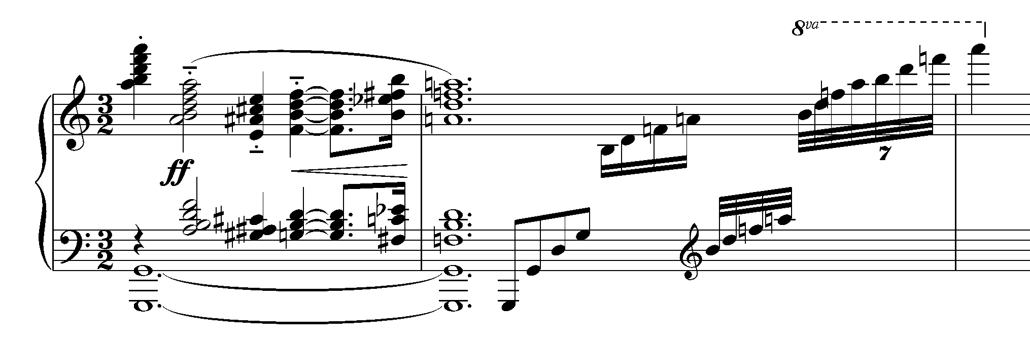 Dominant 9the Chord from 'Hommage a Rameau' by Claude Debussy